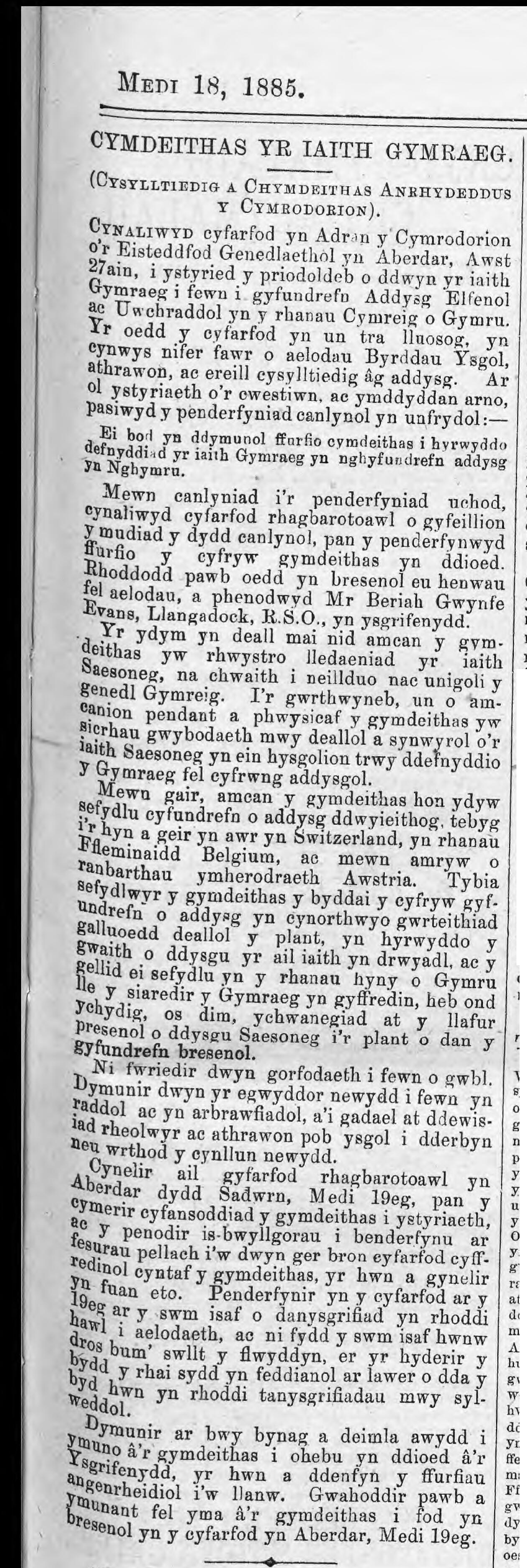 Newspaper cutting from Y Tyst a'r Dydd 1885